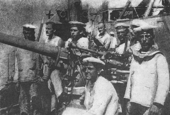 Rebellion of mariners in Boka Kotorska 1st February 1918. Remark kuhl-k: The photo most probably has nothing to do with the events in Cattaro (Kotor) in February 1918 but refers to events in Pula in May 1918. See discussion page.